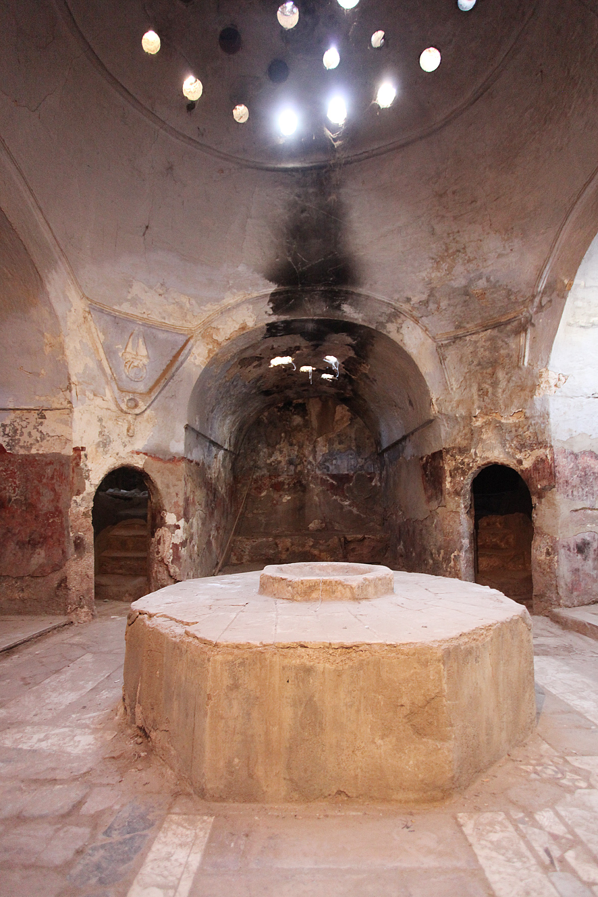 Inside the Hammam of Ali Bey in Girga